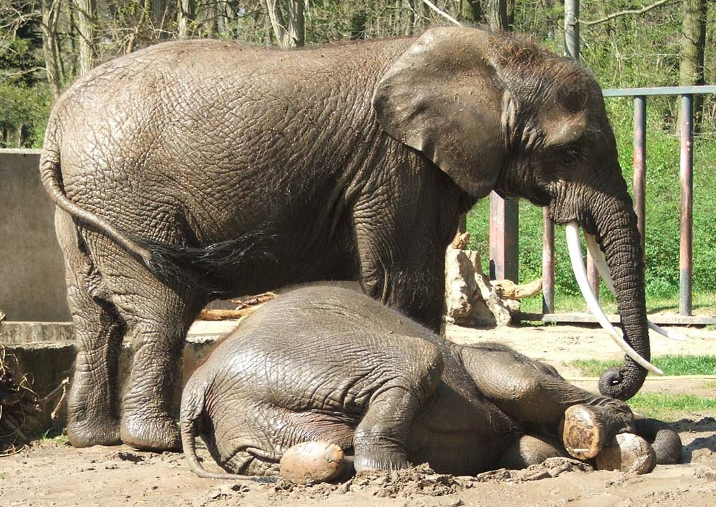 Elephant at Rostock Zoo - 2007